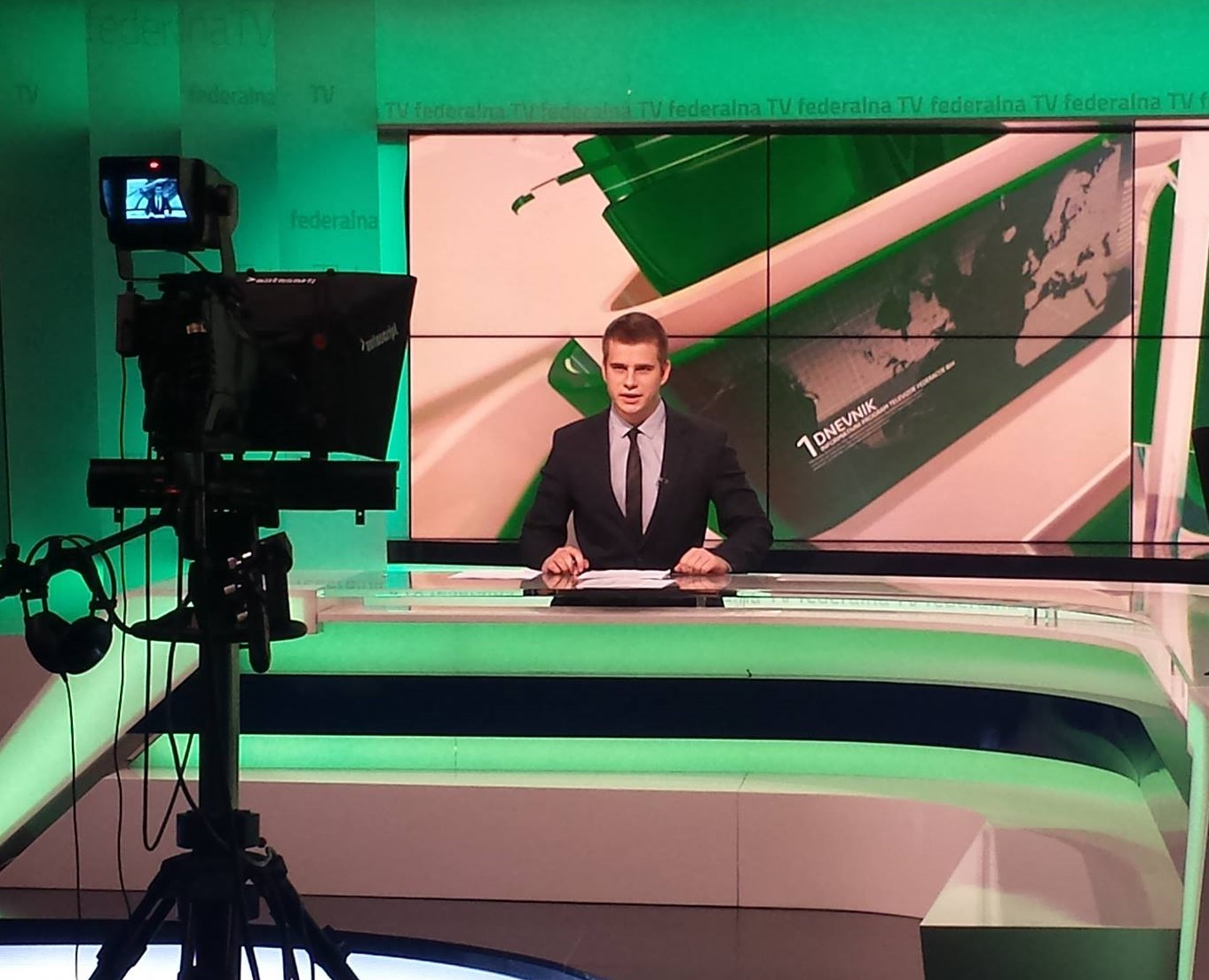 Nikola Vučić in the studio, before recording the show